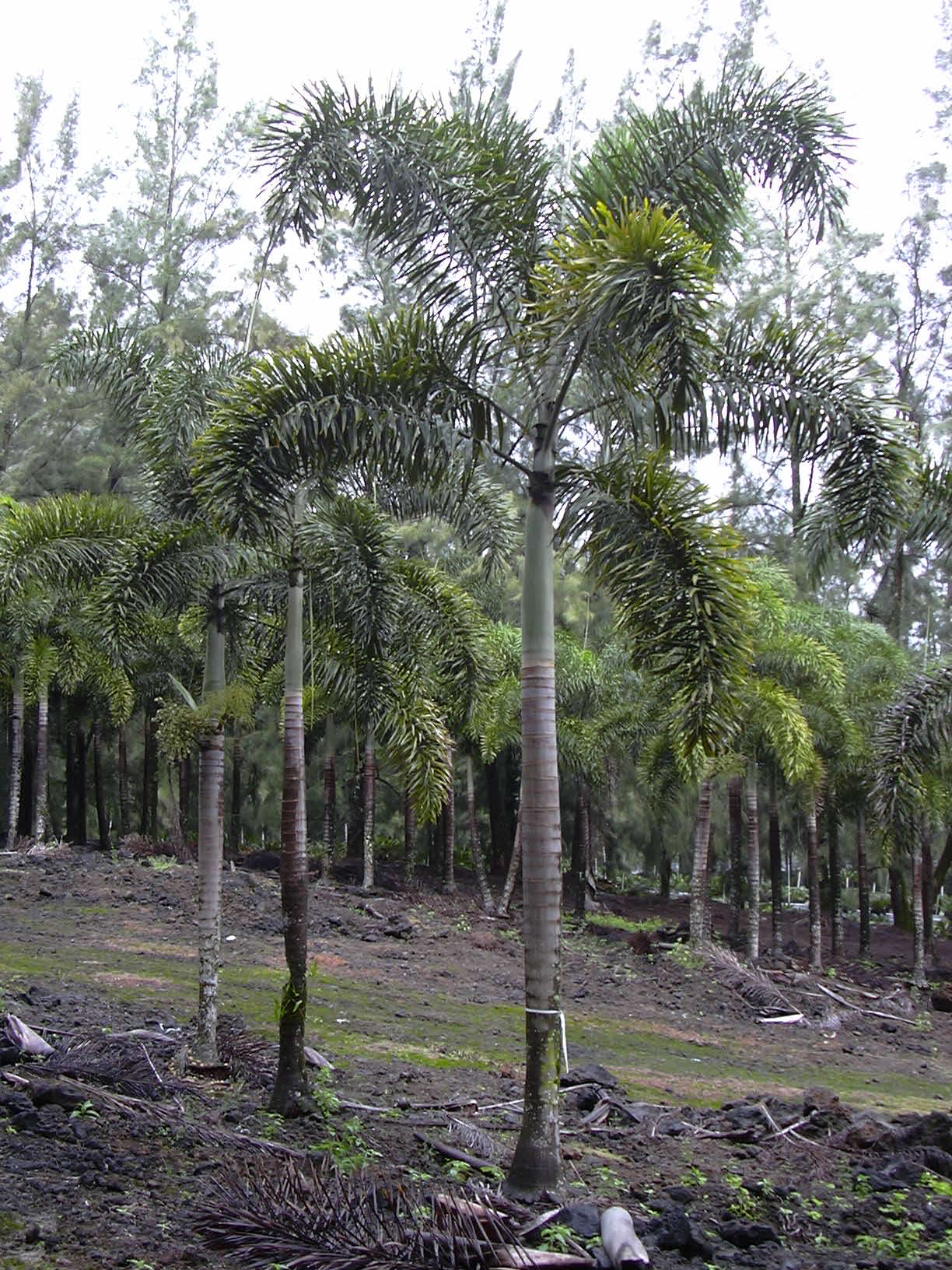 Wodyetia bifurcata (habit). Location: Hawaii, Hilo